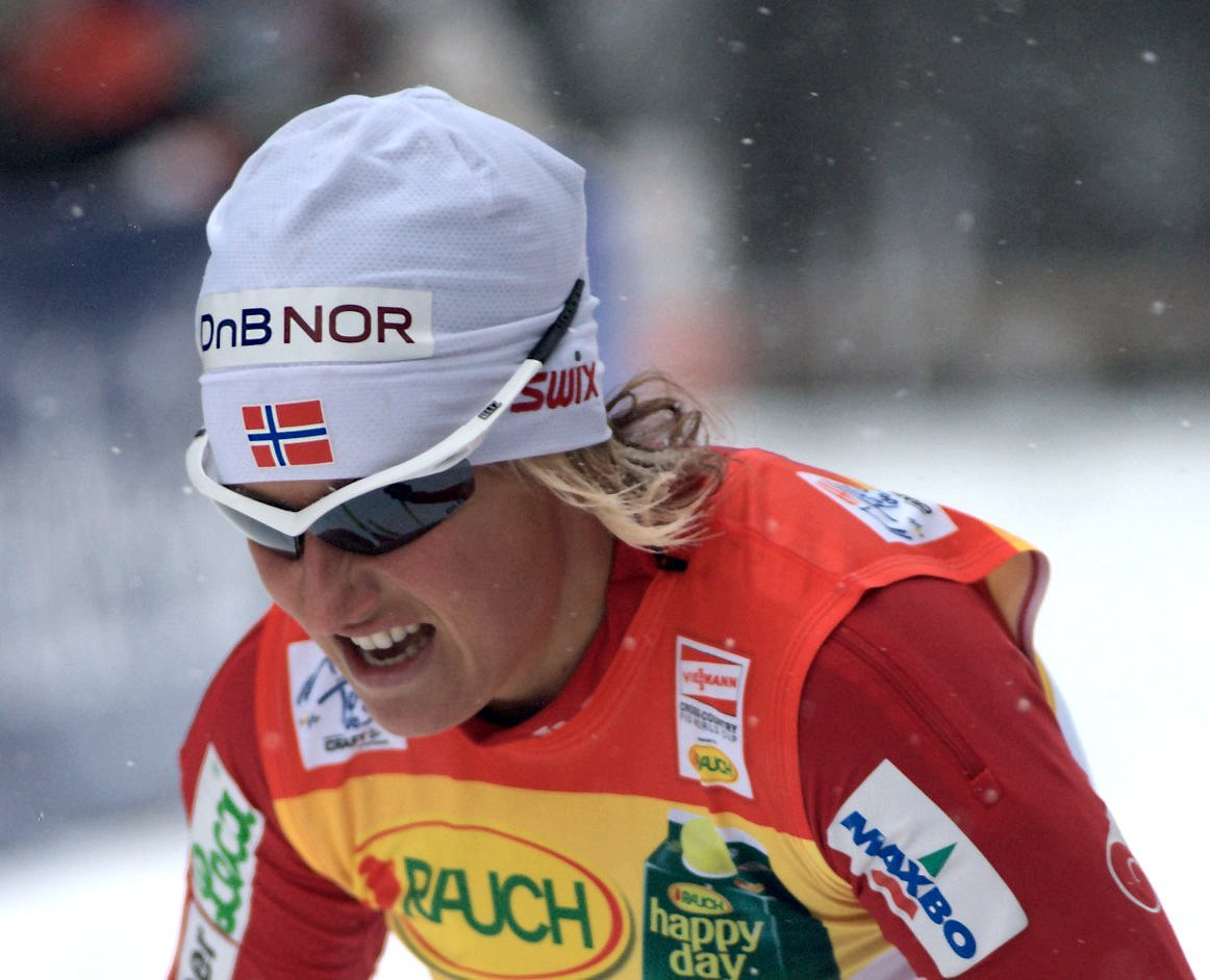 Vibeke Skofterud at the Tour de Ski 2010 in Oberhof